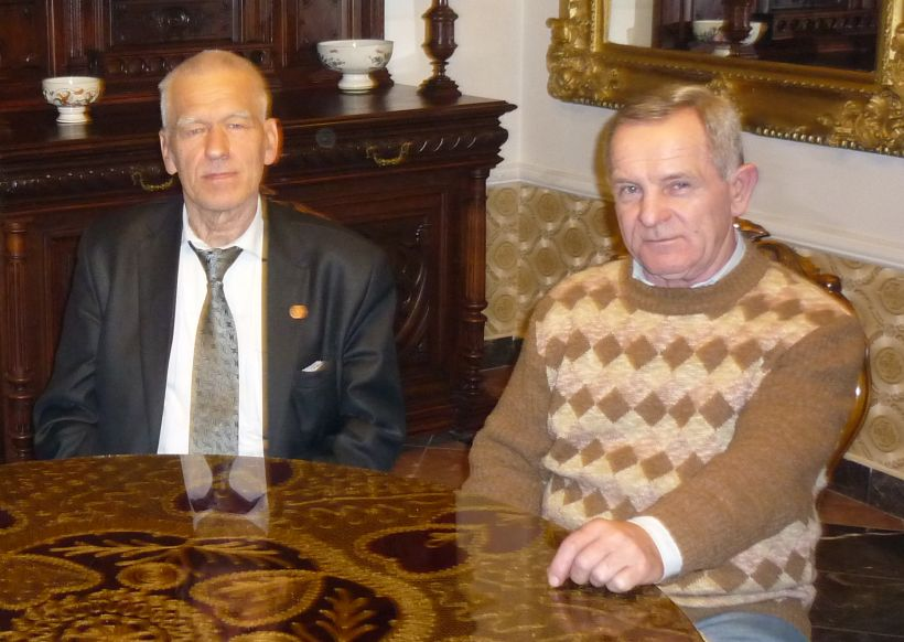 Jerzy Jablonski and Polish anti - communist hero Kornel Morawiecki